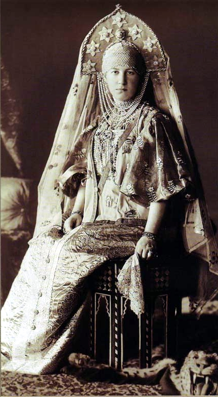 Grand Duchess Maria Georgievna, Princess of Greece and Denmark, in a peasant's attire from Torzhok during the time of Alexei Mikhailovich